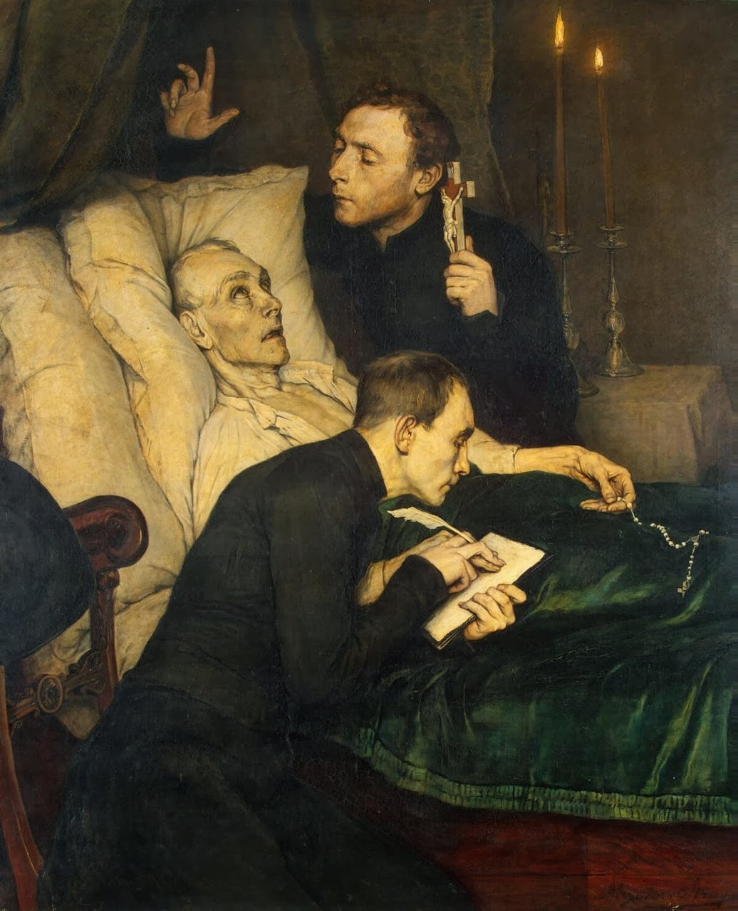 Birds of Prey (The Will)